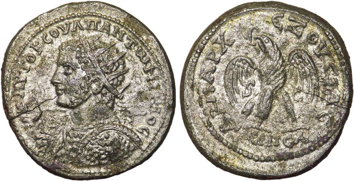 Uranius Antoninius